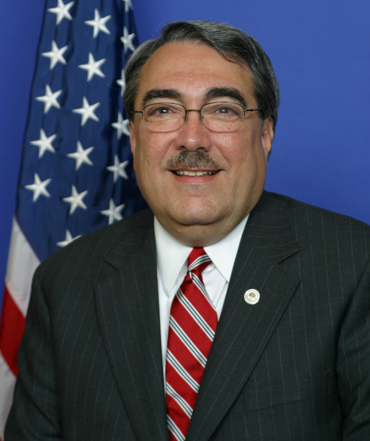 G. K. Butterfield, U.S. Congressman.